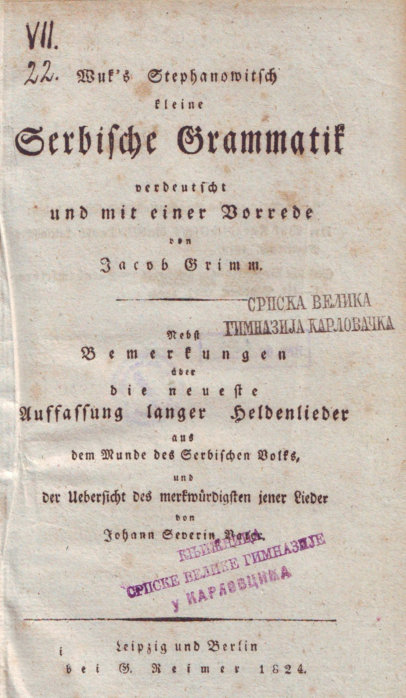 Cover of Wuk's Stephanowitsch kleine Serbische Grammatik (Little Serbian grammar by Vuk Stefanović Karadžić) (1824) translated by Jacob Grimm. Srpski (latinica): Naslovna strana Wuk's Stephanowitsch kleine Serbische Grammatik (Mala srpska gramatika Vuka Stefanovića Karadžića) (1824) prevedena od strane Jakoba Grima.